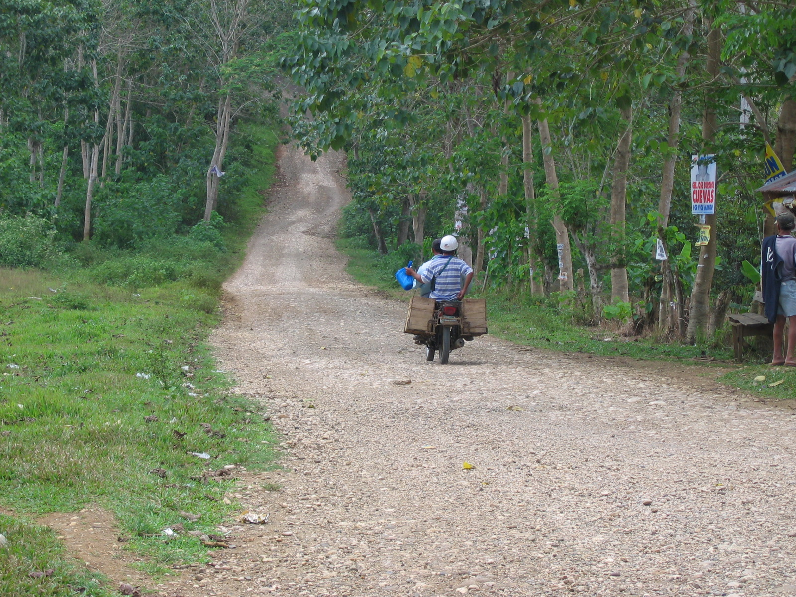 This dirt road goes to the small hamlet of Maguinda, 30 skull-wracking kilometers from Butuan City, Agusan del Norte in Mindanao. Sounds remote, but we have been working with this quiet and friendly community for 5 years. With all of the challenges of poor, far-flung areas of the country, these people have managed to set-up and manage a Multipurpose Community Telecenter, a sort of internet cafe cum business center cum local information center. Equipped with a VSAT Internet connection, and several new desktop PCs, Maguinda is now connected to the world of the web. Mabuhay! (If you have other pictures and stories about your work on development for poverty reduction and raising awareness, please share them with me. Thanks!)